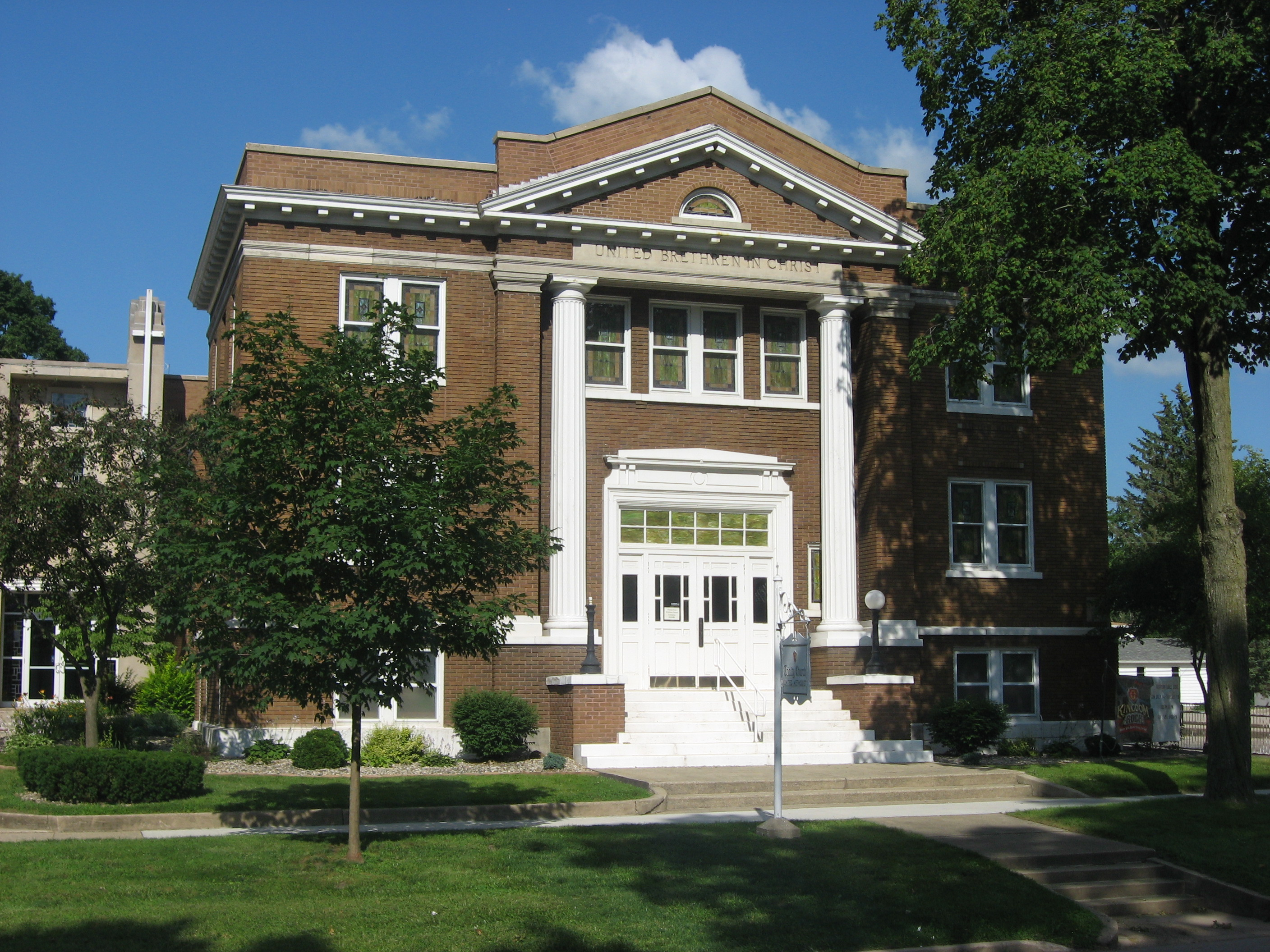 Front of the Trinity United Methodist Church, located at 425 S. Michigan Street in Plymouth, Indiana, United States. Built in 1926, it is part of the Plymouth Southside Historic District, a historic district that is listed on the National Register of Historic Places.